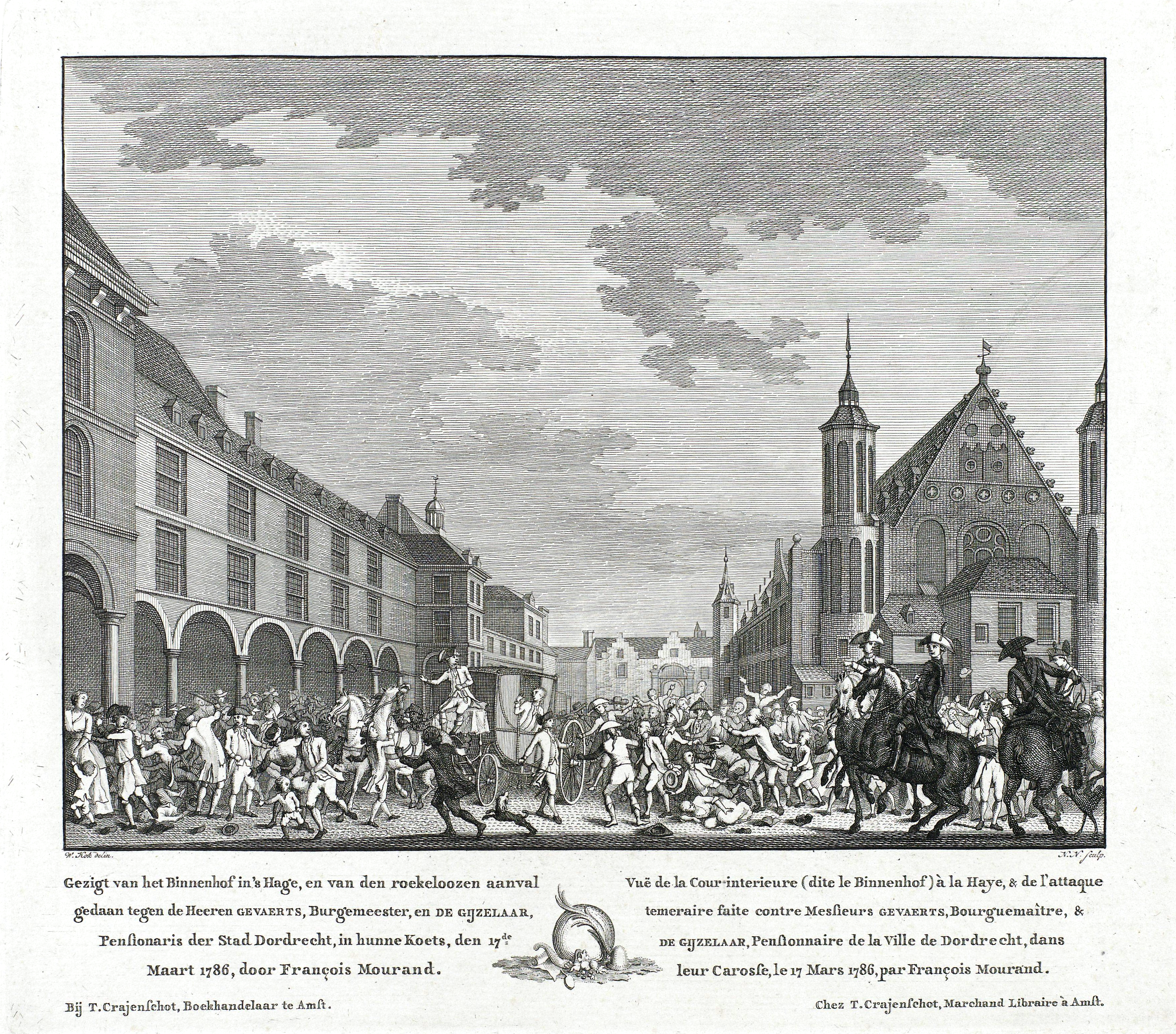 Attack on the deputies of the city of Dordrecht, as they are attempting to pass the Stadtholders Gate of the Inner Courts of The Hague. March 17, 1786.